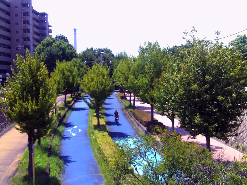 Ohno River Promenade at Osaka